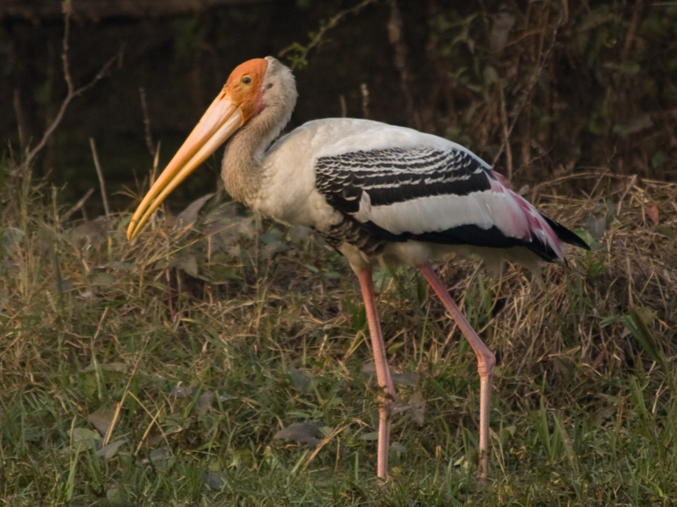 Painted Stork Mycteria leucocephala at Bharatpur, India.painted stork